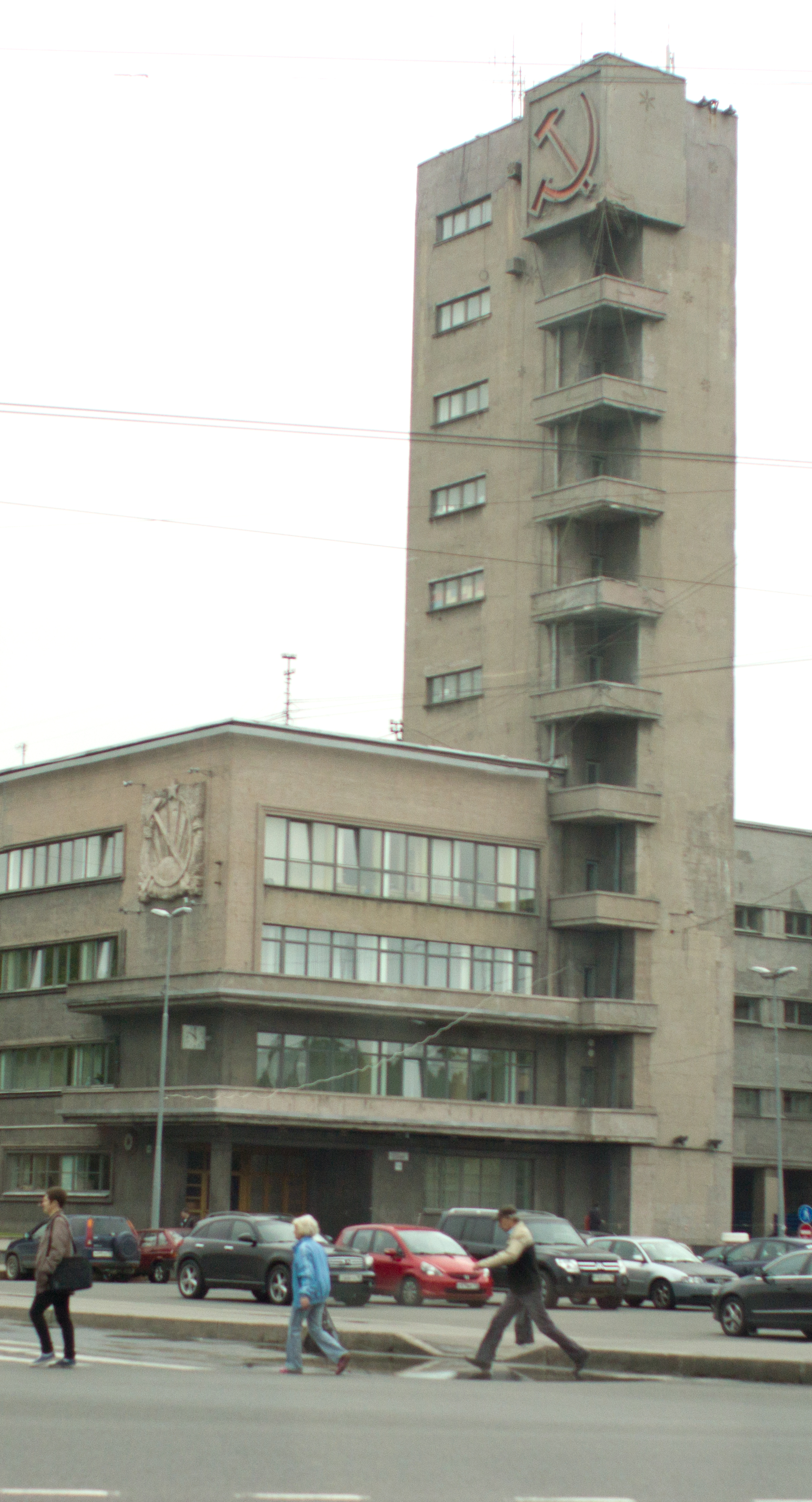 1930s Kirov District Administration building, in St. Petersburg, Russia "ugly building"... to some.